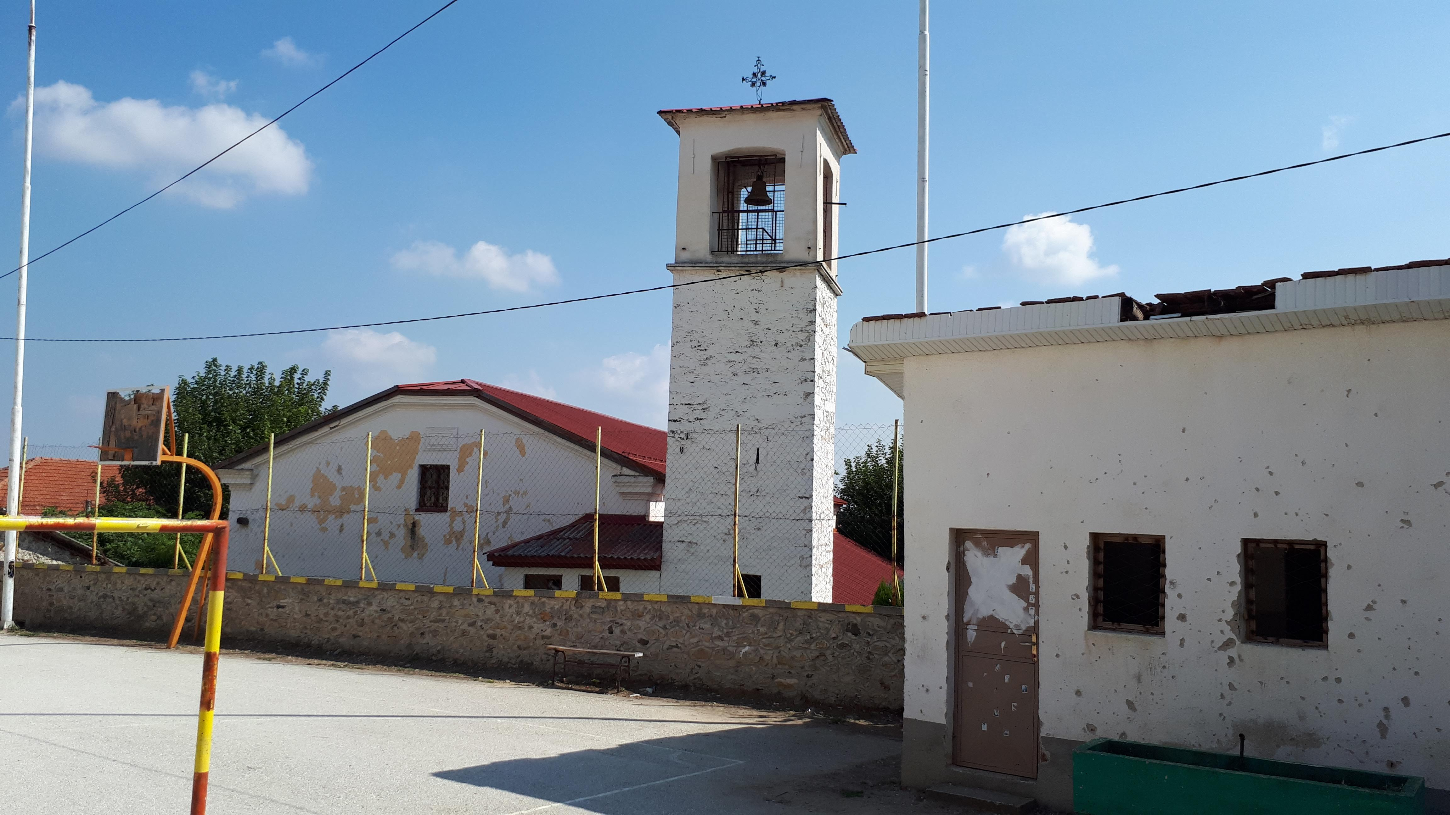 View of the St. Demetrius Church in the village Bukovo